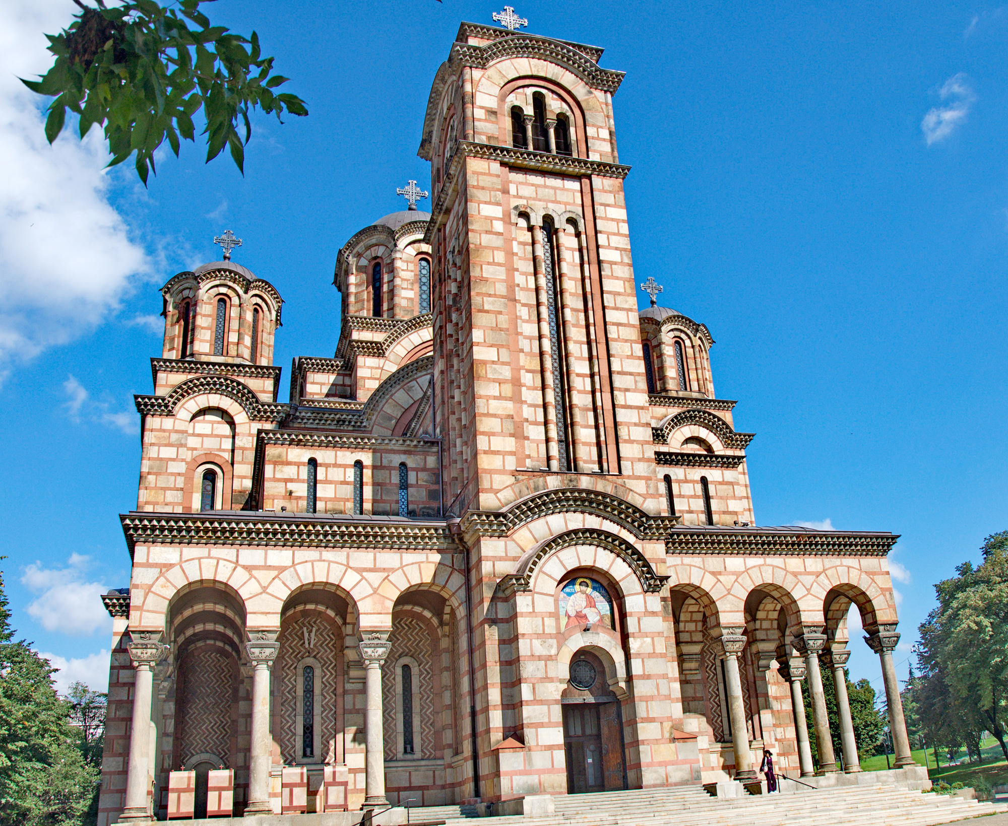 Crkva Svetog Marka na Tašmajdanu građena je od 1931. do 1940. godine u neposrednoj blizini stare crkve iz 1835. godine, prema planovima arhitekata Petra i Branka Krstića. Oblikovana je u duhu arhitekture srpsko-vizantijskog stila. Po opštem graditeljskom rešenju, arhitektonskim formama i polihromiji fasada, ovaj hramje najsrodniji manastiru Gračanici. Opremanje i ukrašavanje hrama još nije završeno.